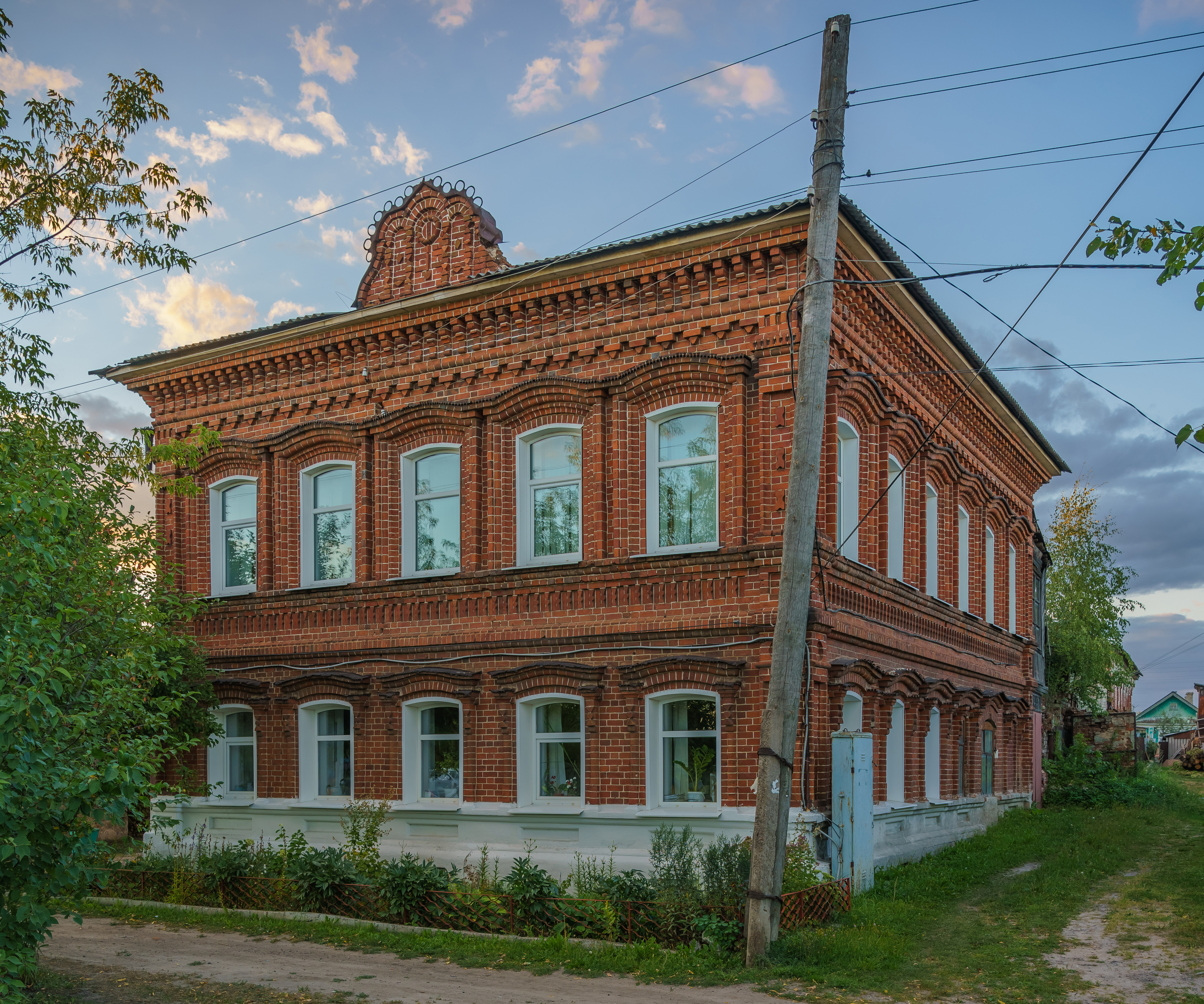 Building at Sovetskaya Street 81 in Pestyaki, Ivanovo Oblast, Russia